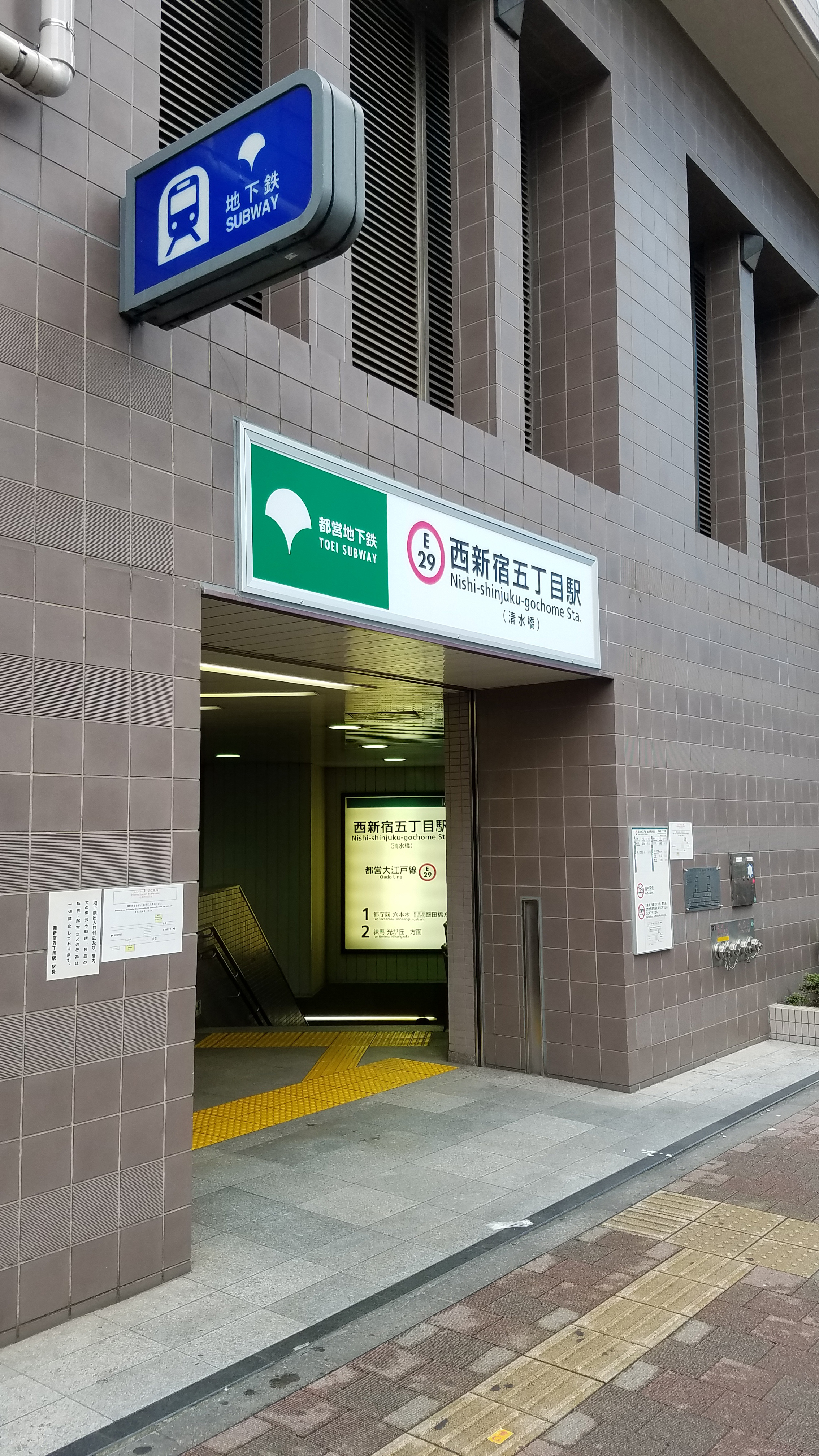 The entrance A2 to Nishi-Shinjuku-gochōme Station on the Toei Ōedo Line in Shinjuku city, Tokyo, Japan